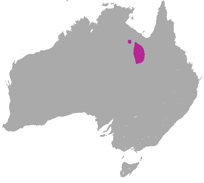 Purple-necked Rock Wallaby (Petrogale purpureicollis) range